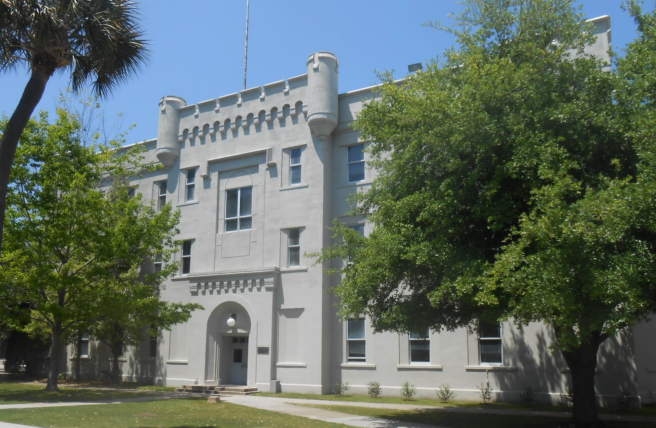 Lettelier Hall, The Citadel, Charleston, SC